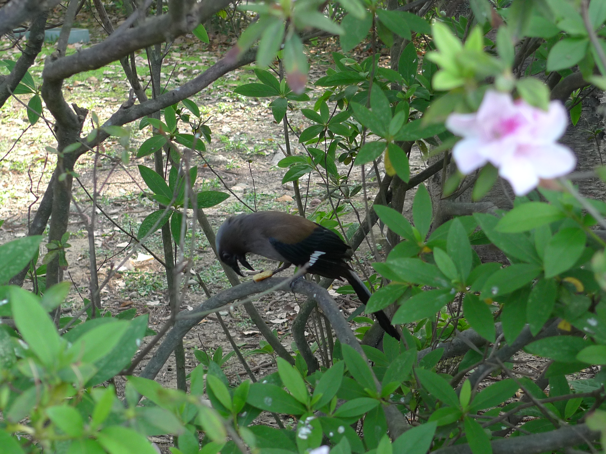 A grey treepie (Dendrocitta formosae) in Taipei, Taiwan.